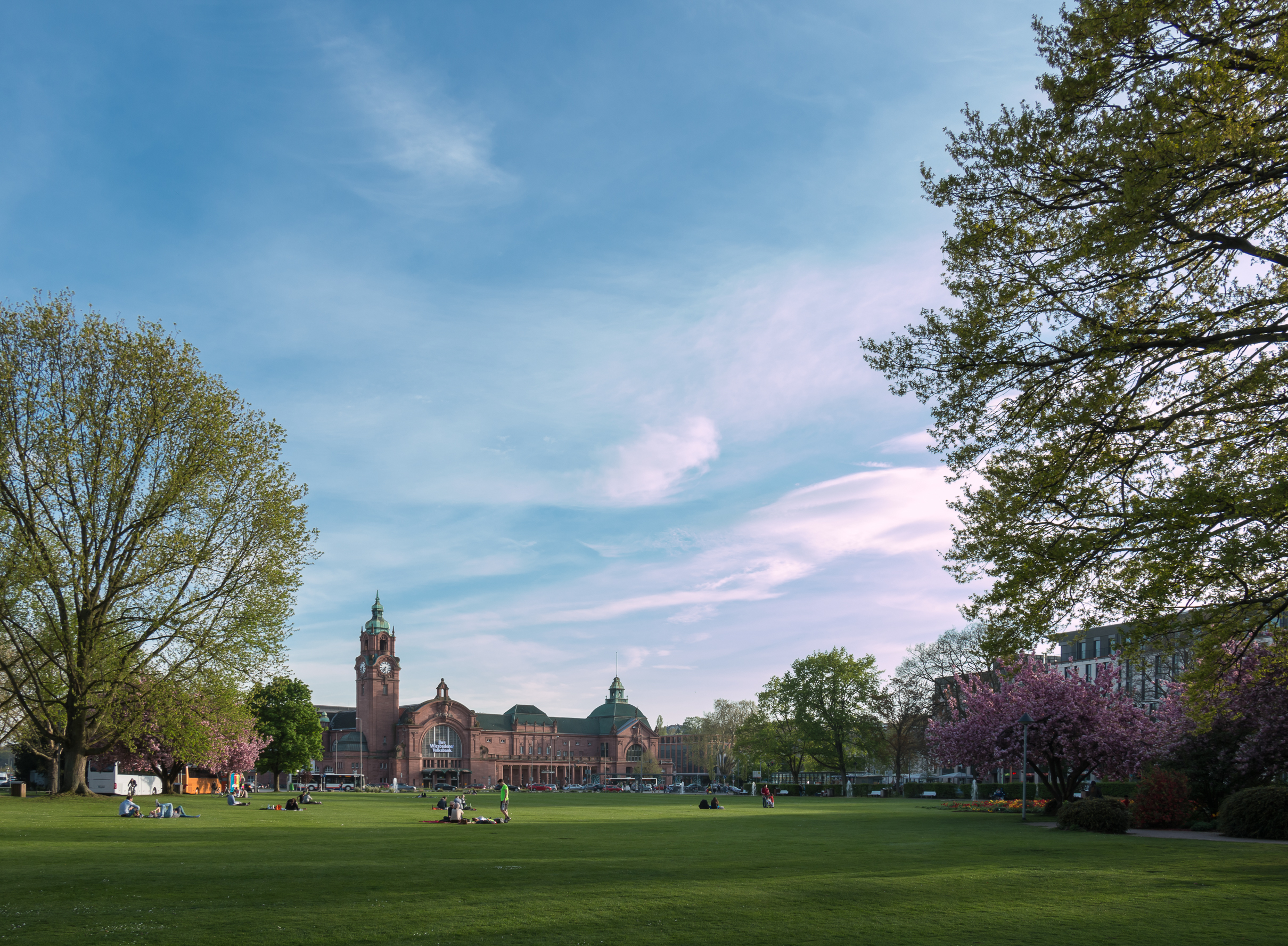 Wiesbaden Hauptbahnhof